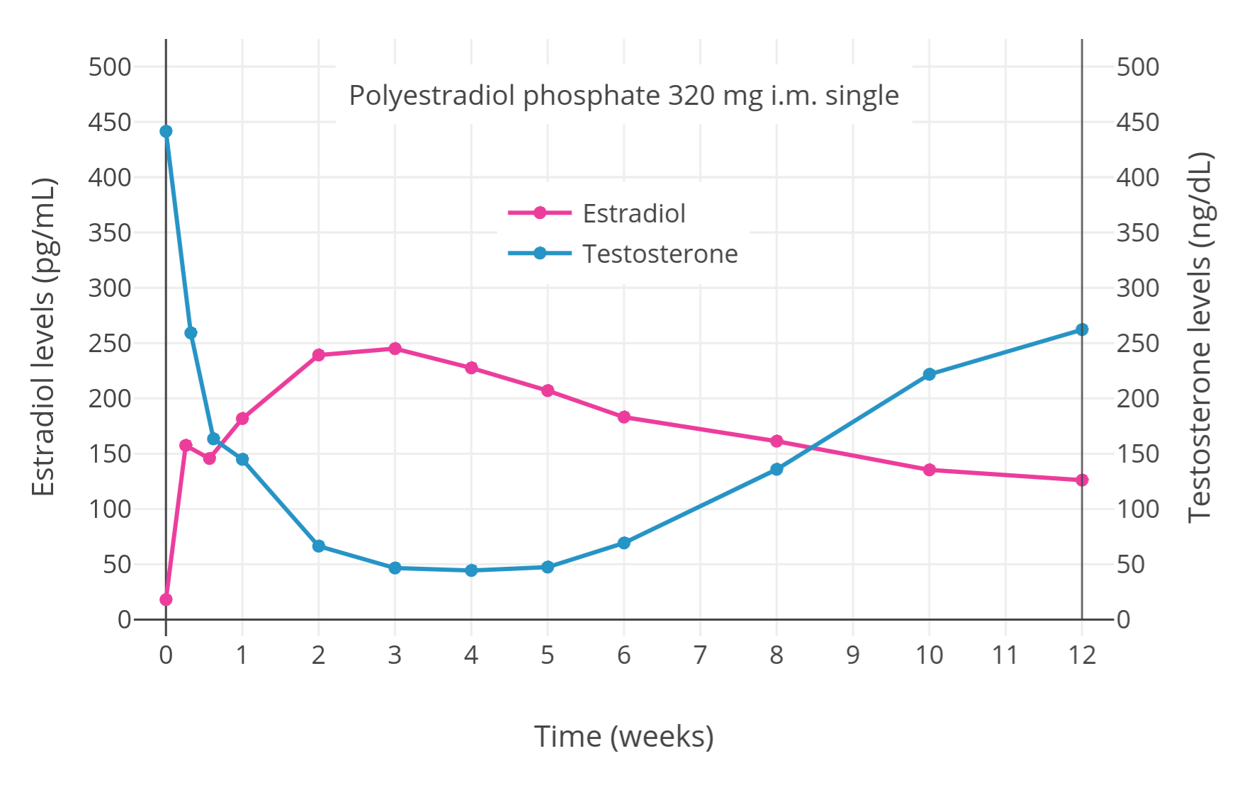 Estradiol and testosterone levels over the course of 12 weeks following a single intramuscular injection of 320 mg polyestradiol phosphate in men. Created from source material using WebPlotDigitizer and Plotly. Source of the values: (May 1996). "Pharmacokinetics and testosterone suppression of a single dose of polyestradiol phosphate (Estradurin) in prostatic cancer patients". Prostate 28 (5): 307–10. 10.1002/(SICI)1097-0045(199605)28:5 3.0.CO;2-8. PMID 8610057.